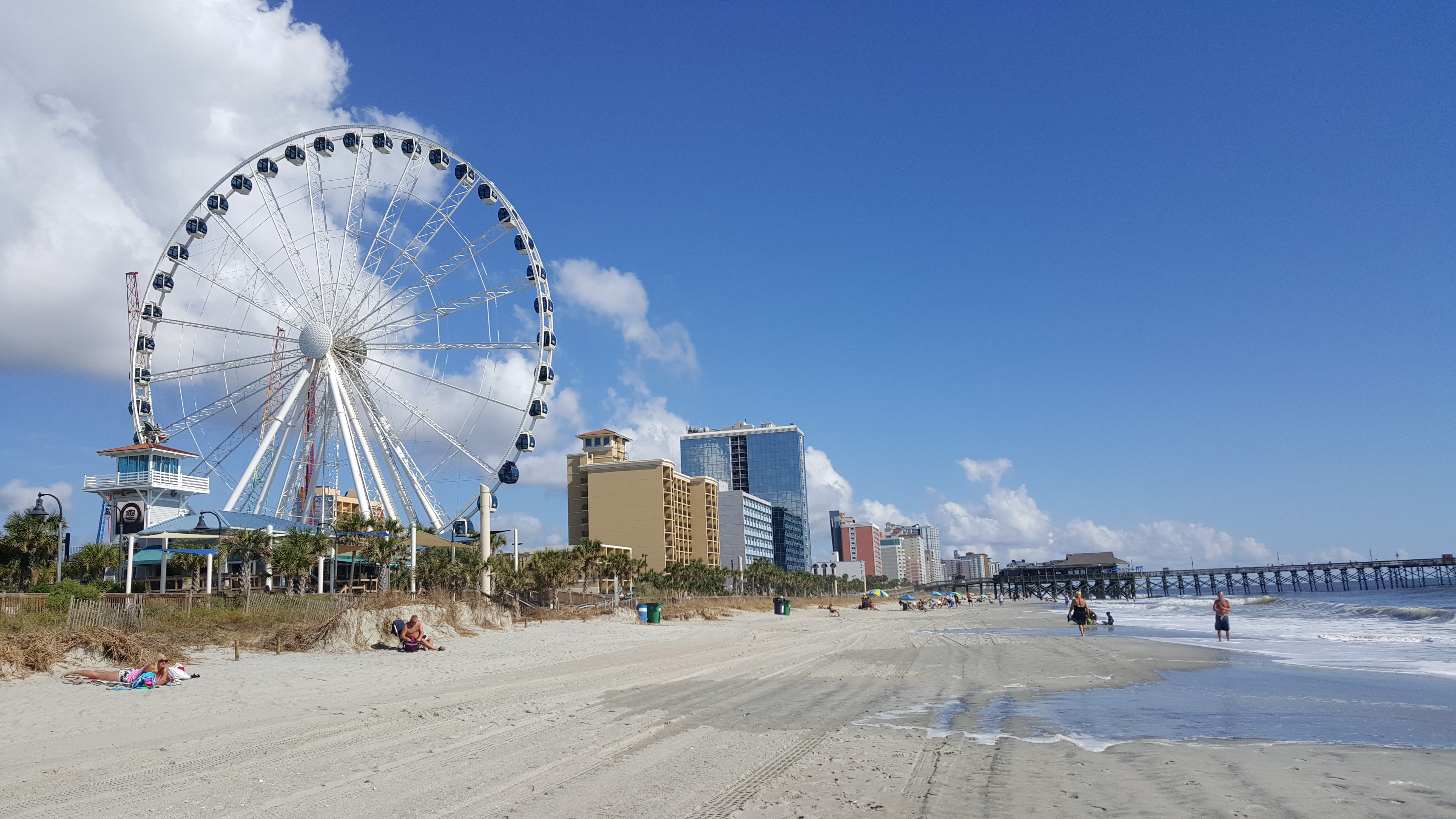 Ferris wheel on the shoreline at Myrtle Beach, South Carolina.